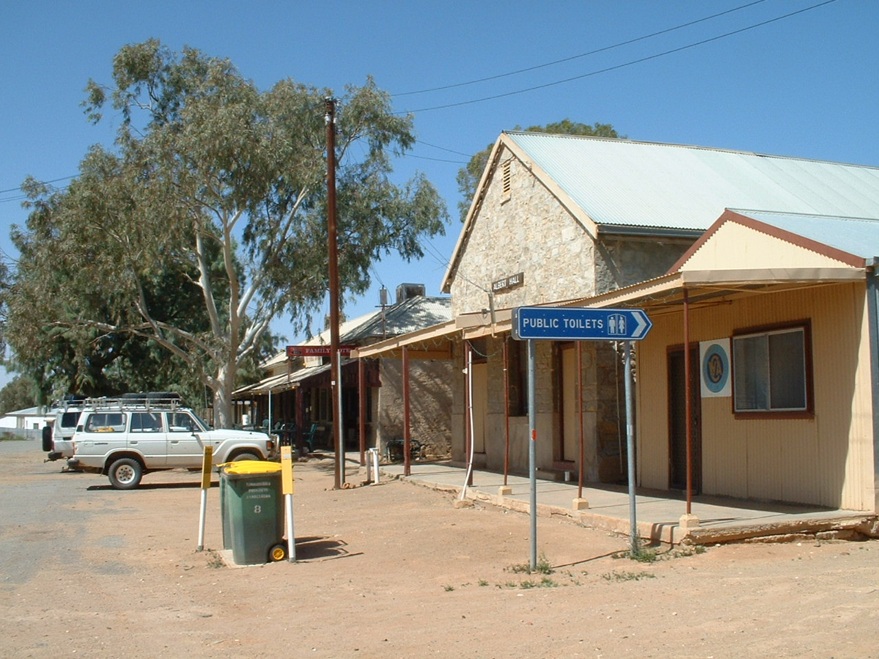 Photo of the Albert Hall in Tibooburra, looking towards the Family Hotel